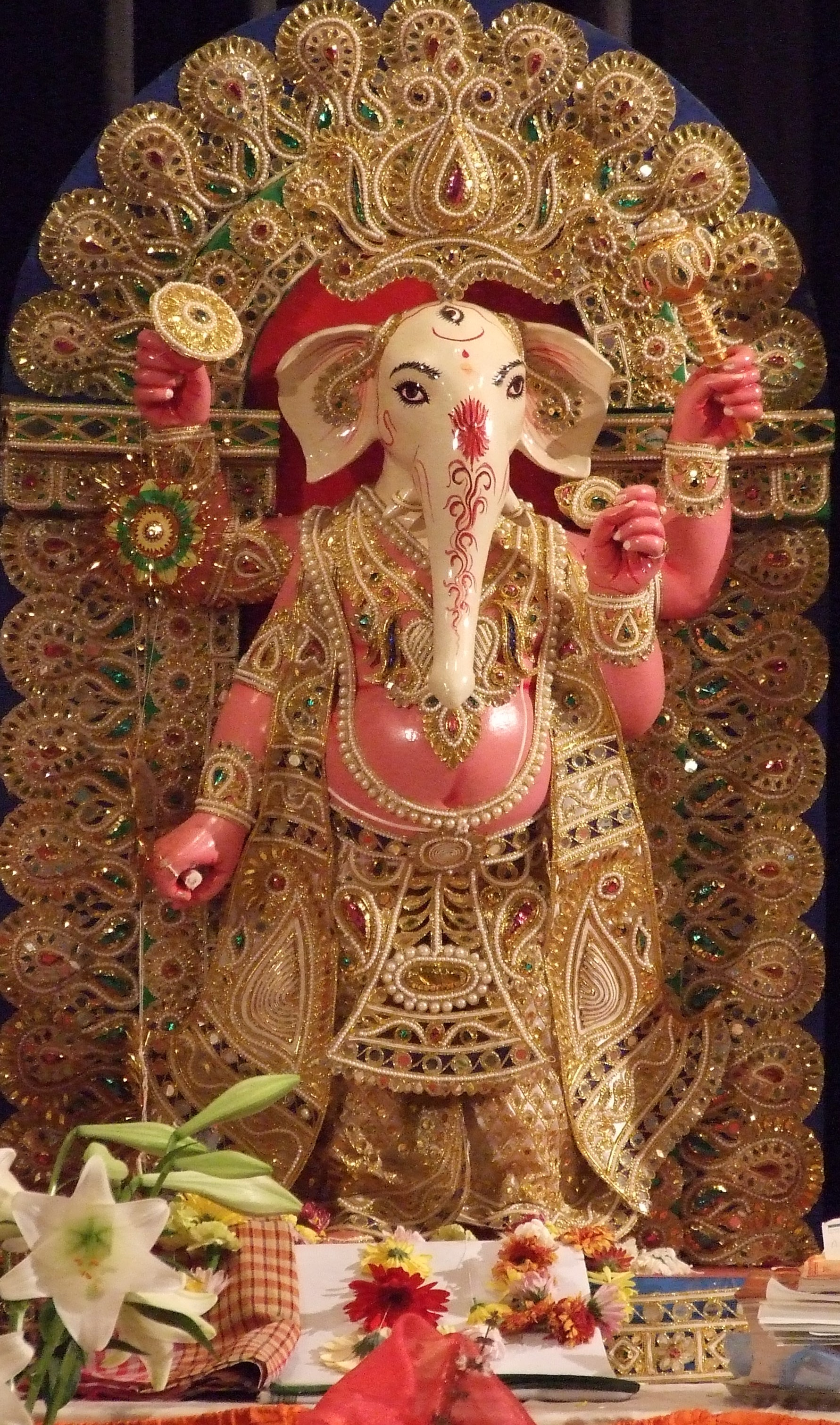 Durga Puja in Koln (Cologne), Germany. Murti of Lord Ganesha.